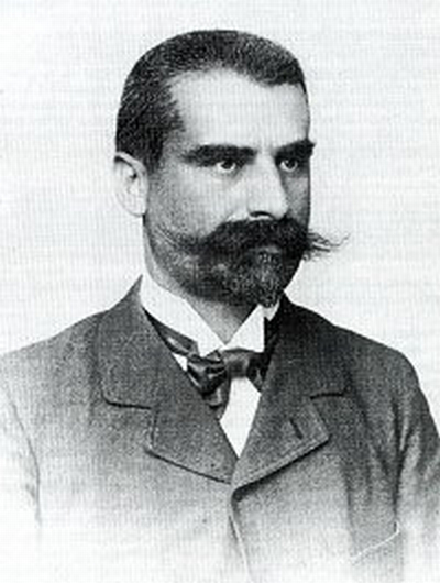 Photo of Olinto De Pretto, 1898